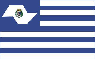 Flag of city of Araçatuba, São Paulo, Brazil